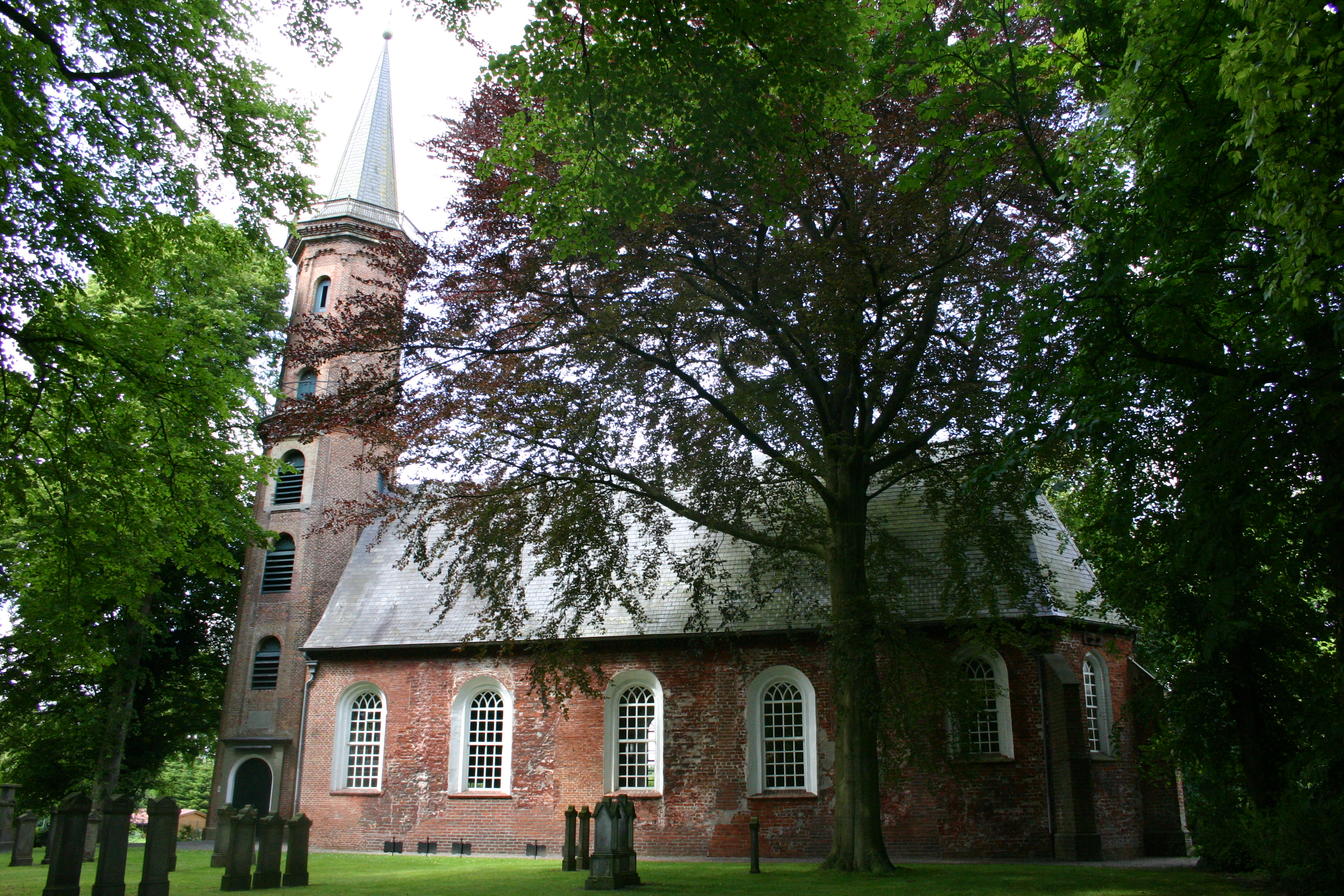 Historic church (reformed) in Loga, district of Leer, East Frisia, Germany